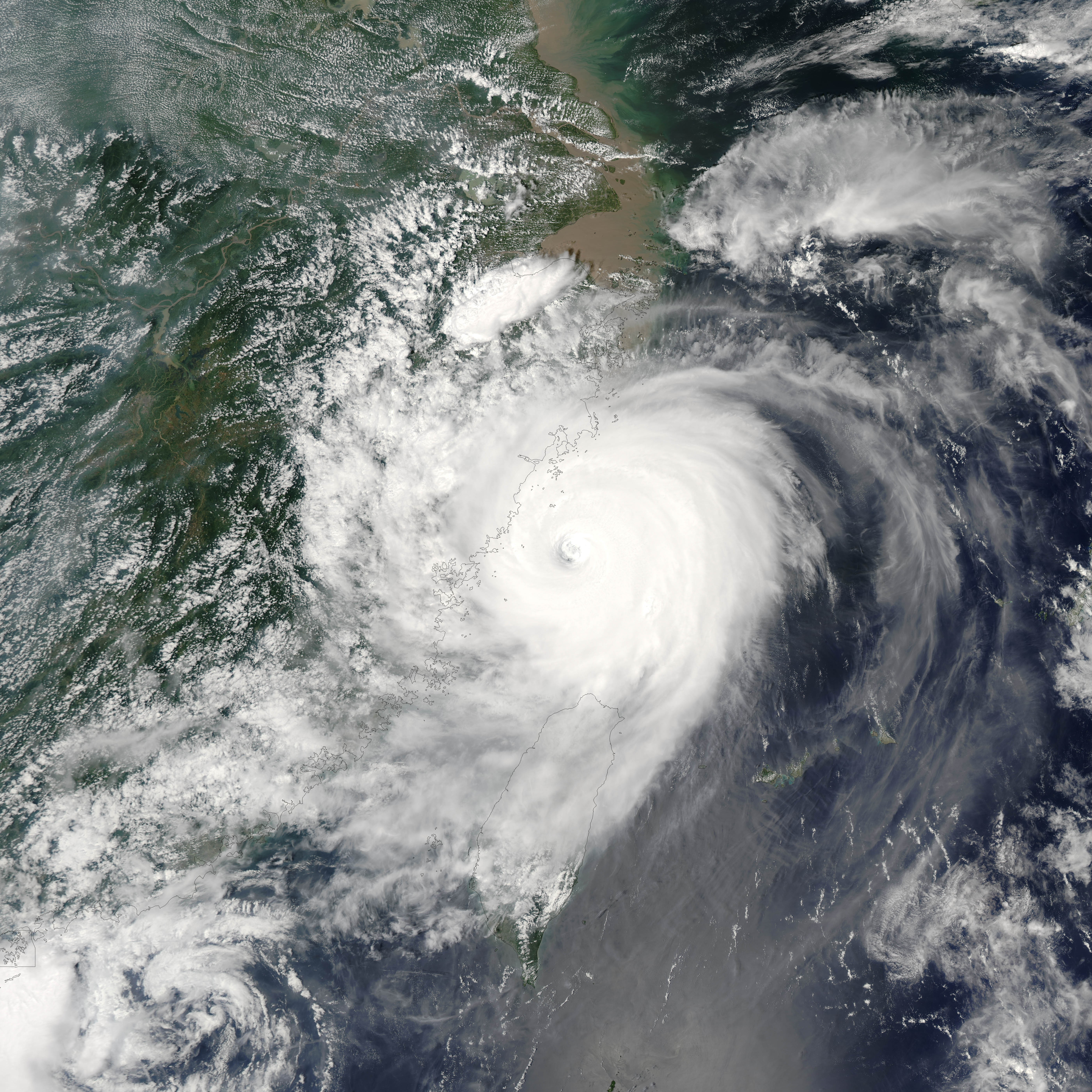 Typhoon Saomai formed in the western Pacific on August 4, 2006, as a tropical depression. Within a day, it had become organized enough to be classified as a tropical storm and earn a name: Saomai, which is the Vietnamese name for the planet Venus. The storm continued to gather strength, becoming a typhoon on August 6. As of August 10, it was poised to strike mainland China as a Category 4 super typhoon, making it the eighth storm to come ashore in China in 2006, according to the Xinhua News Agency. This photo-like image was acquired by the Moderate Resolution Imaging Spectroradiometer (MODIS) on the Aqua satellite on August 10, 2006, at 1:05 p.m. local time (05:05 UTC). Typhoon Saomai possessed a well-defined, closed (cloud-filled) eye at the center of the storm, with tightly wound spiral arms. Thunderstorm systems particularly close to the eyewall were sending up tall cloud towers, which cast shadows onto the surrounding lower clouds (see large, full-resolution image). Around the time MODIS captured this image, Typhoon Saomai had sustained winds of around 240 kilometers per hour (150 miles per hour), according to the University of Hawaii’s Tropical Storm Information Center. The high-resolution image provided above is provided at the full MODIS spatial resolution (level of detail) of 250 meters per pixel. The MODIS Rapid Response System provides this image at additional resolutions.